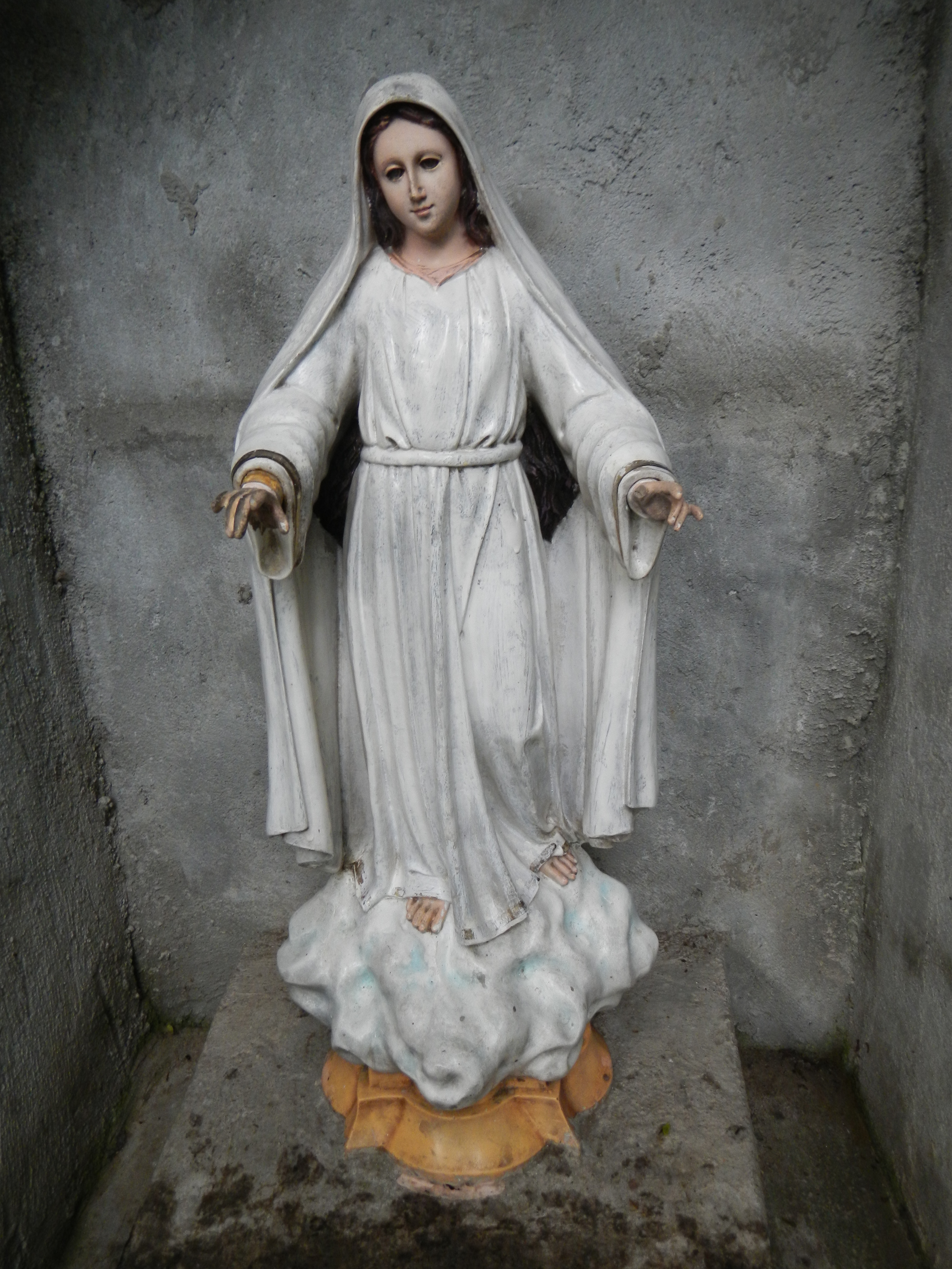 Mary Mediatrix of All Graces in --- Lake Sampaloc[1] is an inactive volcanic maar[2] [3] in -- --- San Pablo, Laguna [4] on the island of Luzon, the Philippines. [5]; Dagatan Boulevard is a place located at latitude (14.080800) and longtitude (121.323891) on the map of Philippines; [6] Coordinates: 14°4'42"N 121°19'49"E; It is the largest of the Seven Lakes of San Pablo, Laguna[7]. Nearly half of the lake's depth has a shallow depression at the lake's bottom, indicating its volcanic origin. The lake is located behind San Pablo city hall and is dotted with fishpens and small cottages built on stilts. [8] It is inactive volcanic maar οn thе island dotted wіth fishpens аnԁ small cottages built οn stilts with Boardwalk;[9] [10] The biggest amongst the seven lakes, it is 1.2 kilometers wide and 27 meters deep, and 3.7 km. circumference, a shallow volcanic crater, that got filled with water overtime;[11] [12]; it has lotus flowers and in the foreground is the mysterious Mount Banahaw[13] with bamboo rafts and fish pens contain ing tilapia, carp and bangus, several species of shrimps, just 20 meters deep;[14] [15] It has been more than 700 years since the last eruption of the San Pablo Volcanic Field. Its craters, also known as maars, have since filled with water and are now disguised as placid lakes.[16]